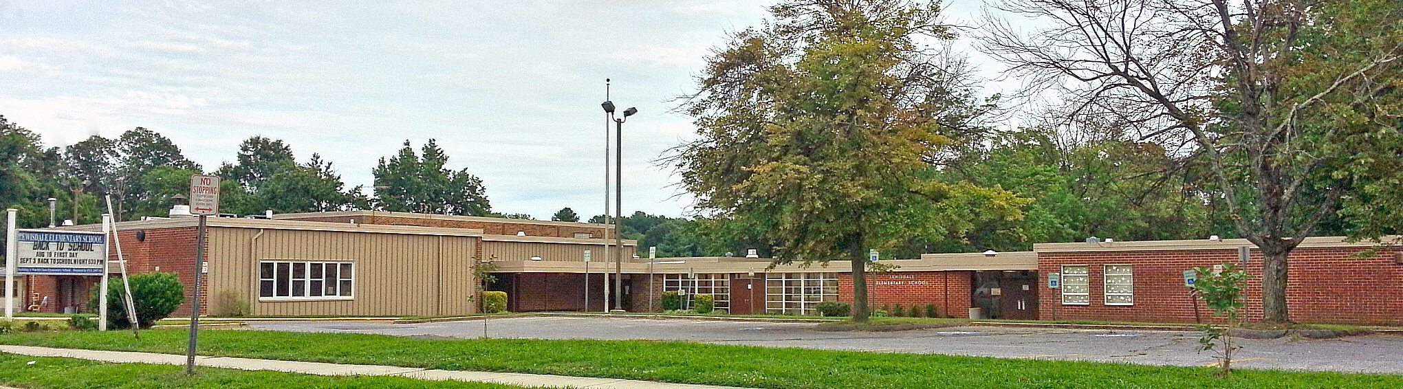 Front view of Lewisdale Elementary School in the Chillum census-designated place, Maryland.